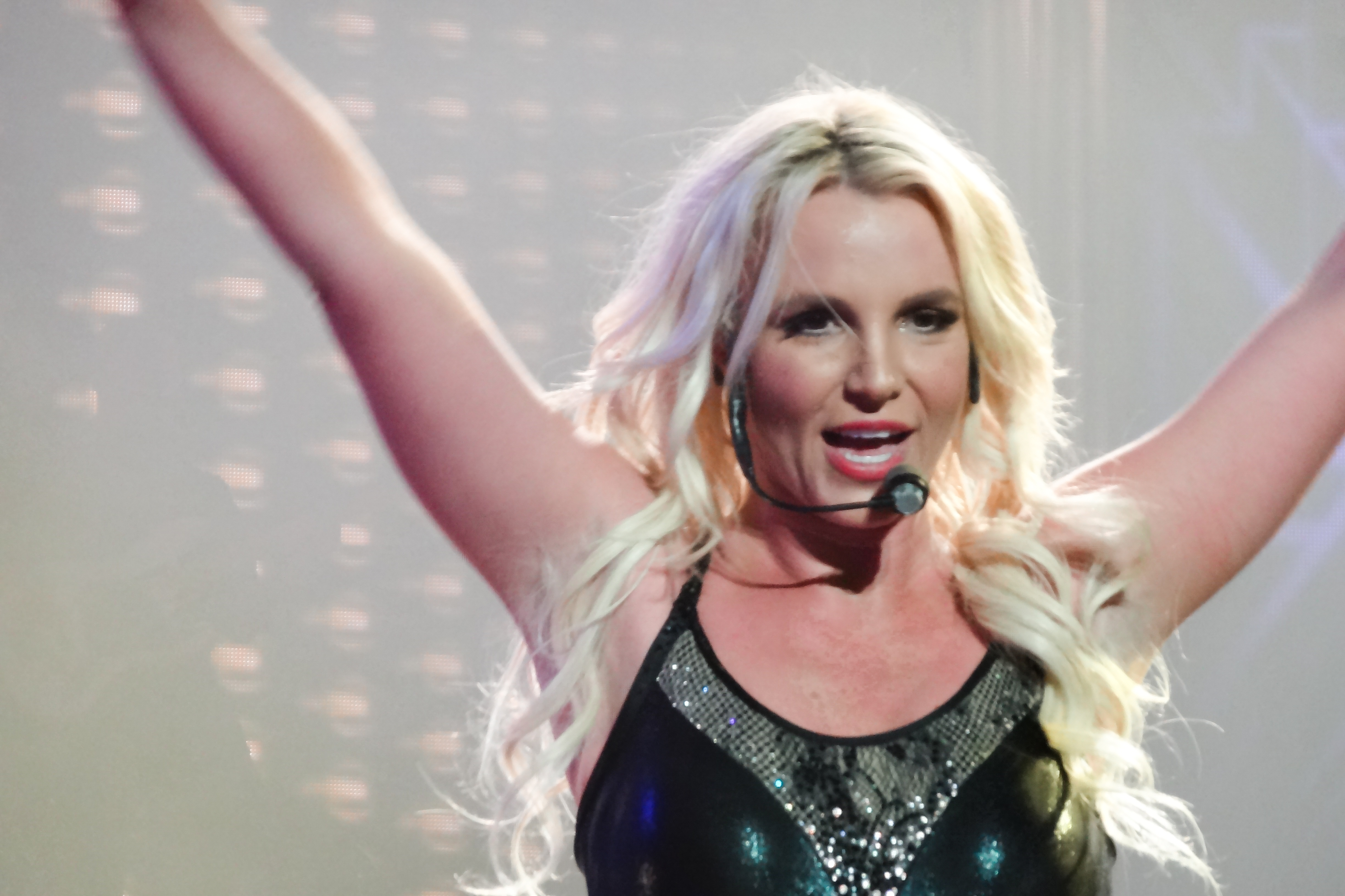 Do Somethin